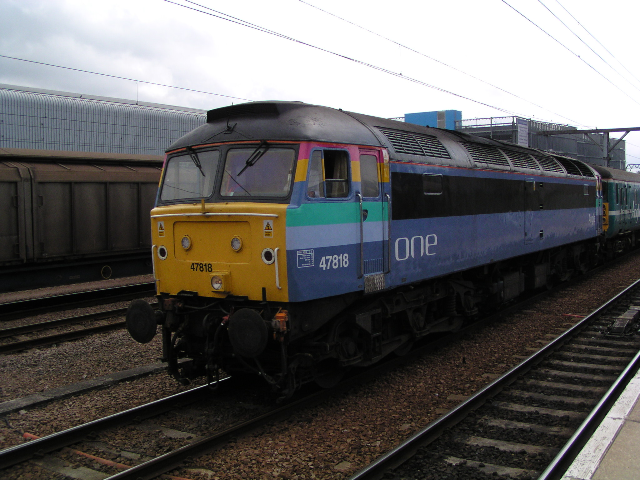 BR Class 47, no. 47818 at Cambridge. This locomotive is owned by Cotswold Rail but hired to 'one'. Over the summer of 2004, it was used extensively to haul diverted passenger trains from London Liverpool St to Norwich, due to engineering works at Ipswich.